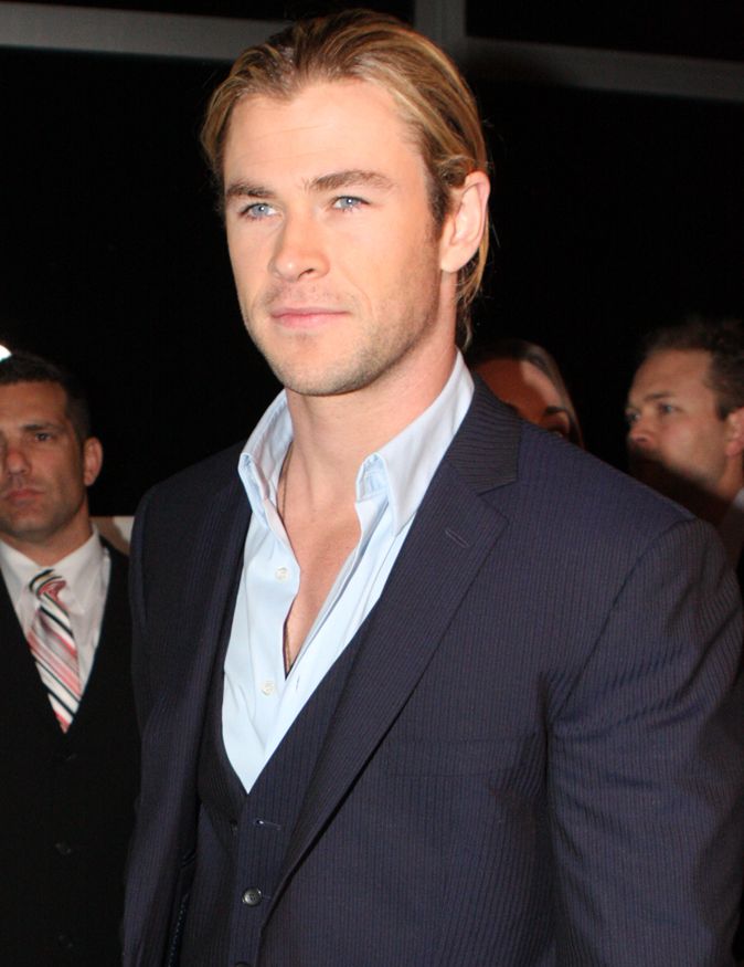 Chris Hemsworth at the Snow White and the Huntsman movie premiere - Bondi Junction, Sydney Australia 2012.